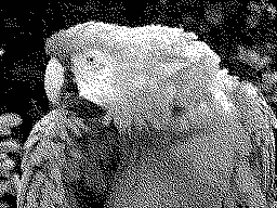 A rendering of on the ZX Spectrum interlaced display.